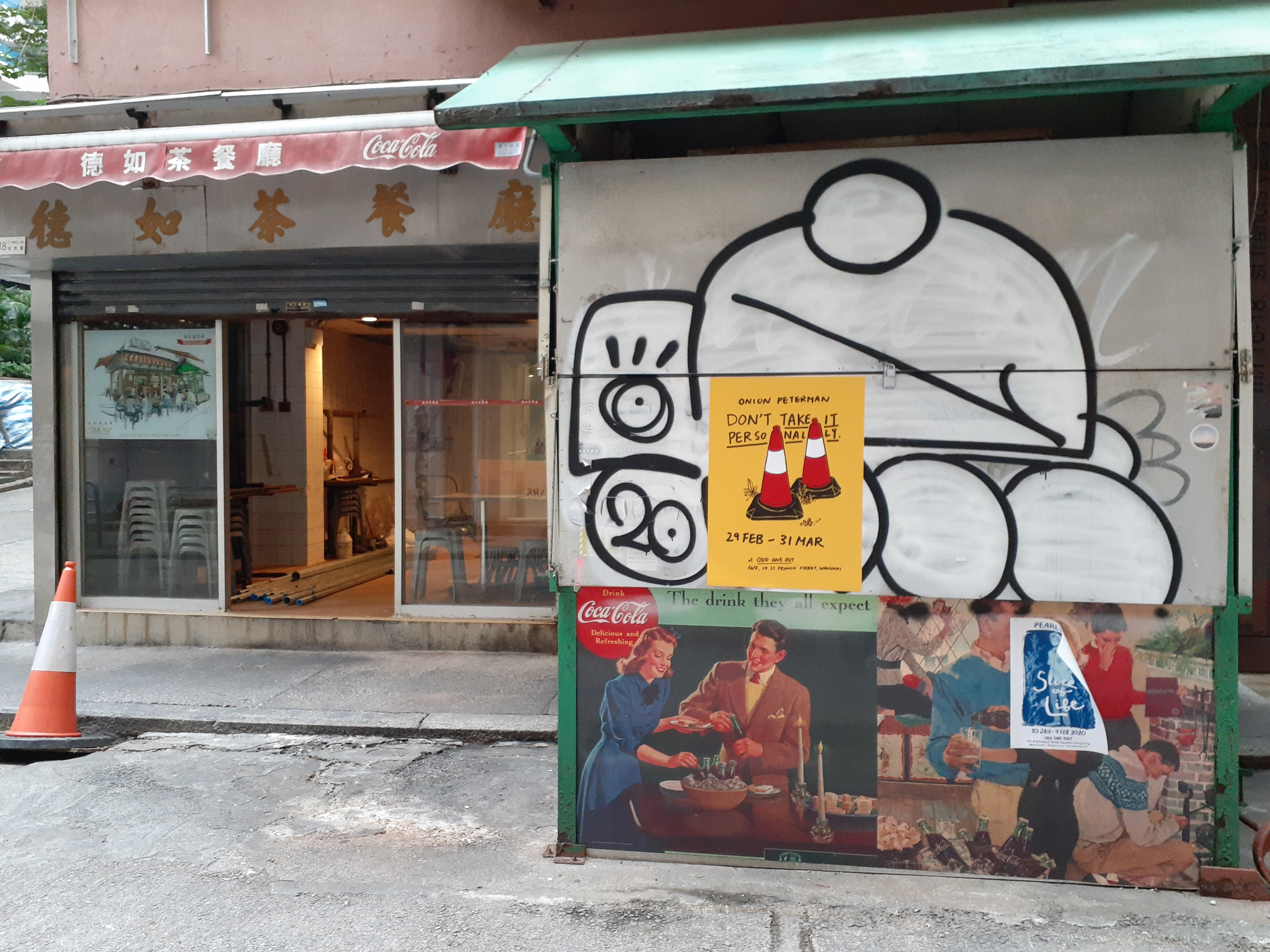 HK 灣仔 Wan Chai 進教圍 St. Francis Yard near 光明街 Kwong Ming Street in March 2020